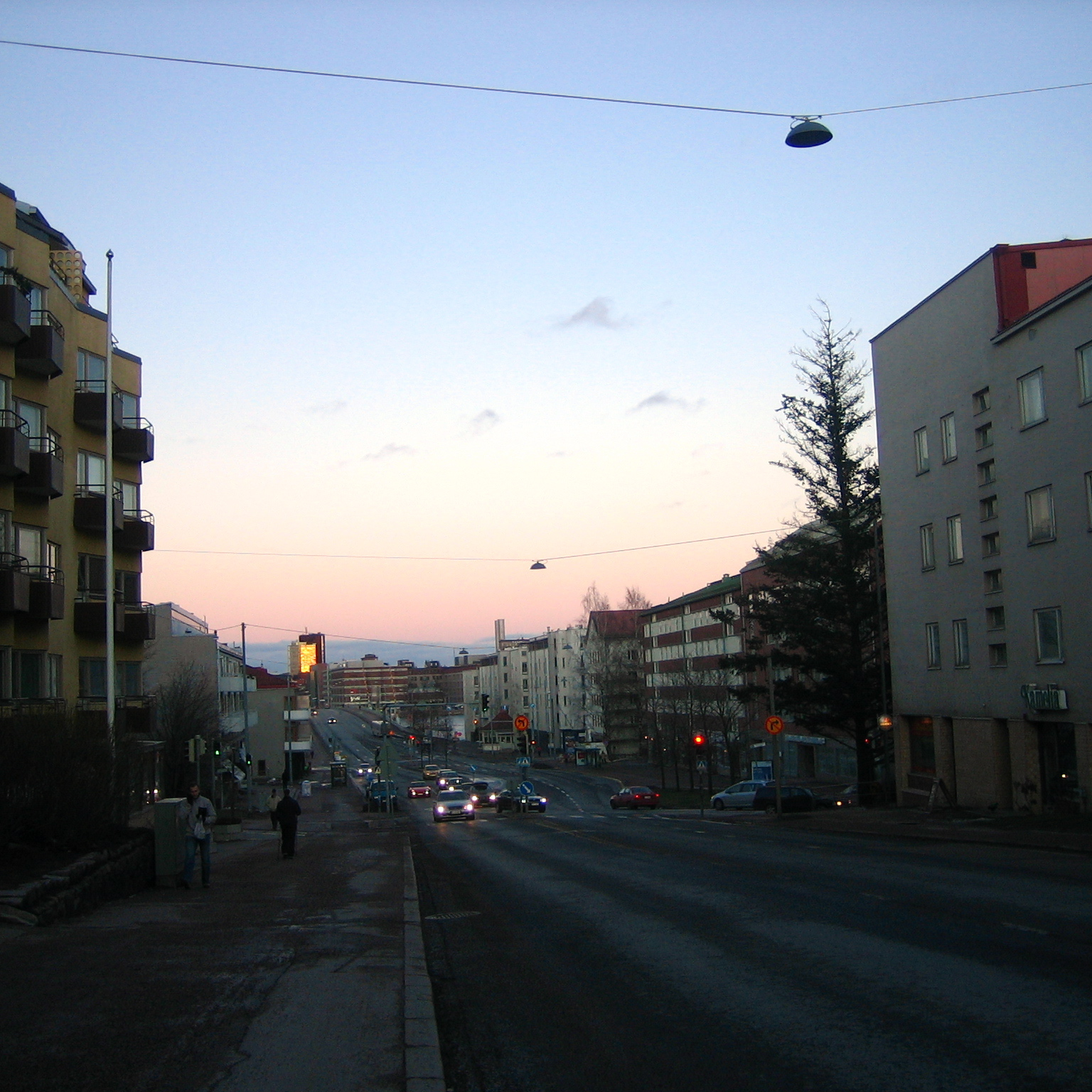 Lauttasaarentie street in Lauttasaari, Helsinki